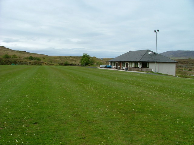 Portree Camanachd Ground and Clubhouse Home to the local Shinty team.